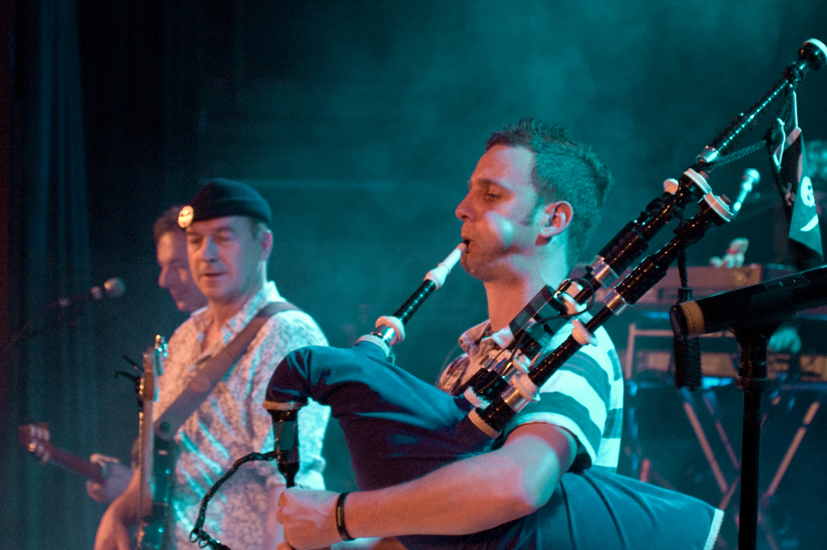 Soldat Louis' show in Monthey. The making of this document was supported by Wikimedia CH. (Submit your project!) For all the files concerned, please see the category Supported by Wikimedia CH.